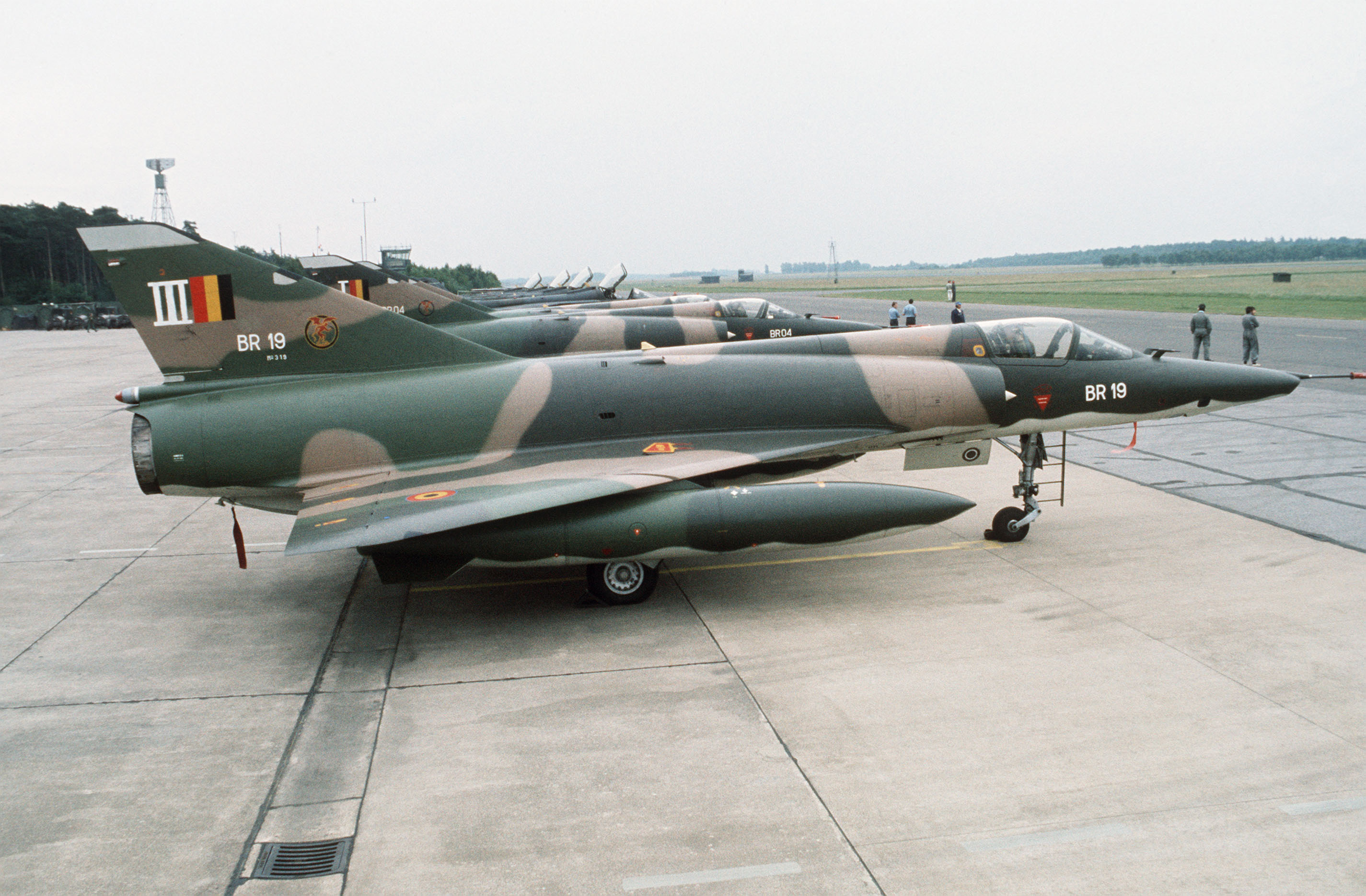 A Belgian Mirage 5BR reconnaissance aircraft (s/n 319) parked on the flight line at RAF Wildenrath, Germany, during "Tactical Air Meet '78" on 15 May 1978. The aircraft was delivered on 30 December 1971 and assigned to 42nd Squadron, 2nd Wing at Bierset (Liège, Belgium). On 20 December 1989 it suffered engine problems during an IFR-approach to Bierset and crashed. The pilot, Lt. Pieter Demuynck, ejected, but was killed.